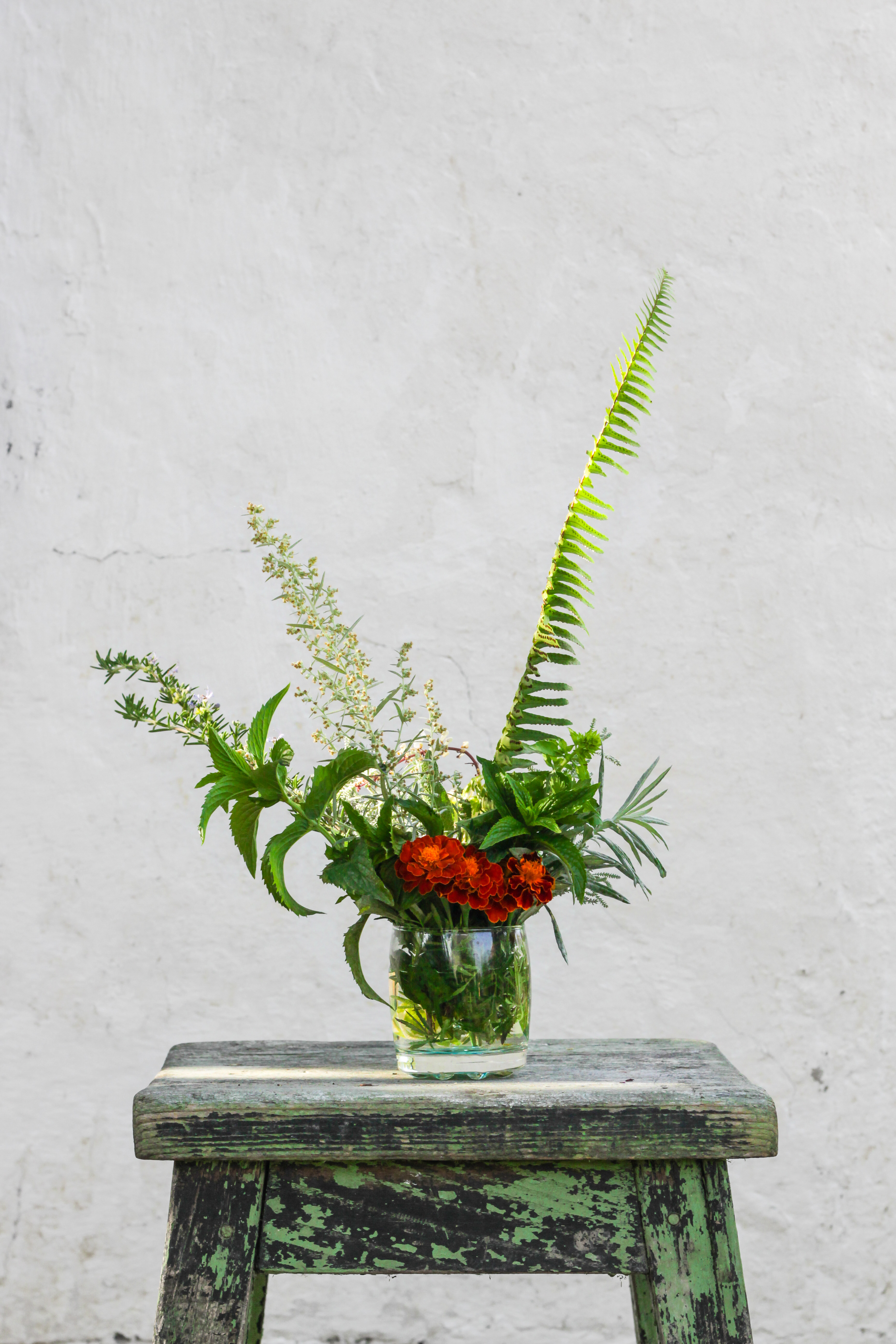 NordWood Themes 2017-01-25